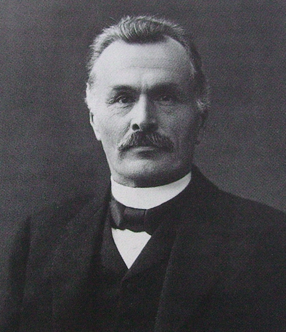 Picture of Ernst G. Palmén, Finnish scholar and archivist